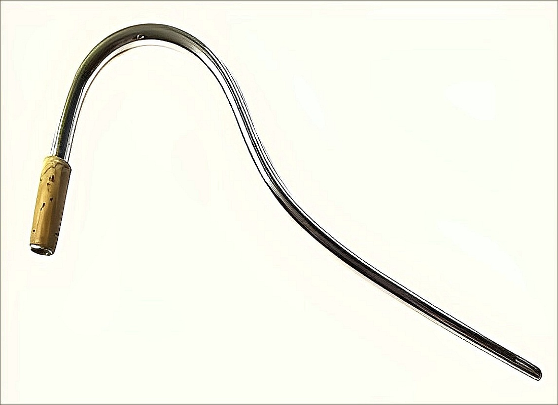 Heckel Biebrich Bassoon Bocal.